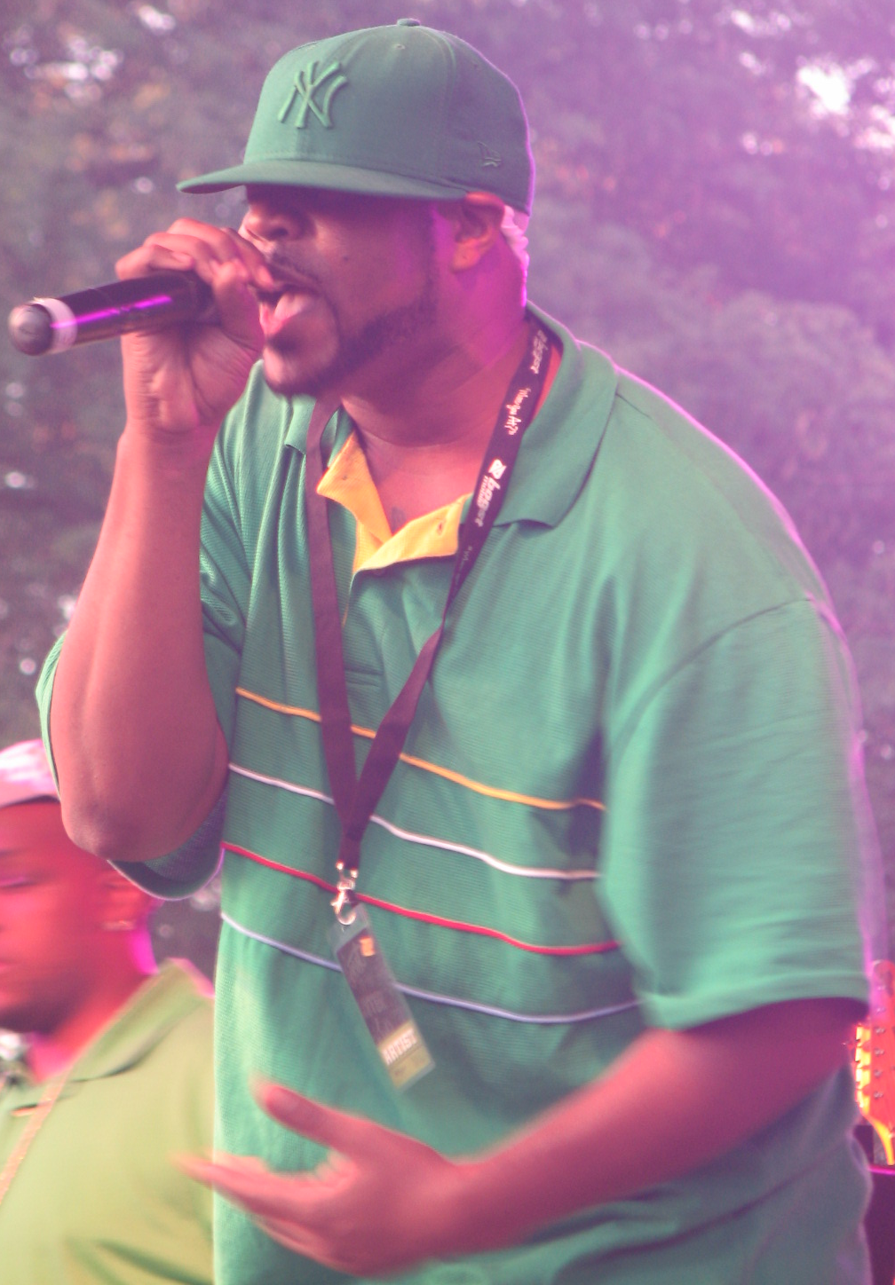 Capadonna at the 2007 Pitchfork Music Festival in Chicago, Illinois.